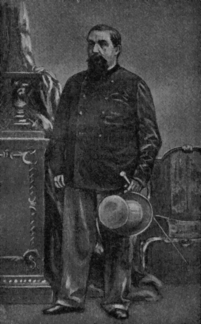 Pierre Bonaparte (*11. Oct. 1815, Rome), 4th son of Lucien Bonaparte, father of Roland Bonaparte, the geographer. Married Justine Eléonor Rufflin (*1832) on 22nd Mch. 1853.